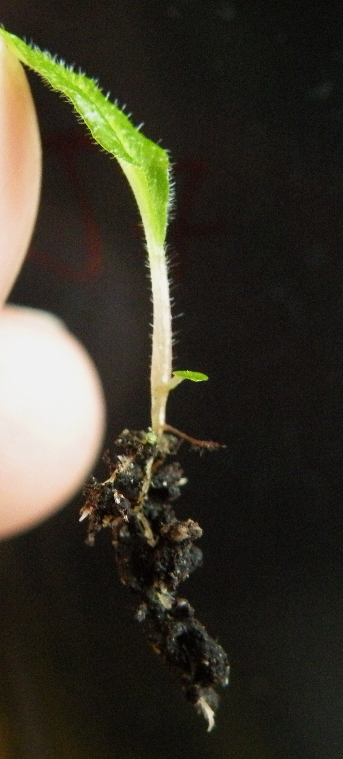 [('Texas Hot Chili' x S. Liliputana) x (S. liliputana x 'Fiesta Plum')] x self F3, seedling showing rudimentary cotyledon